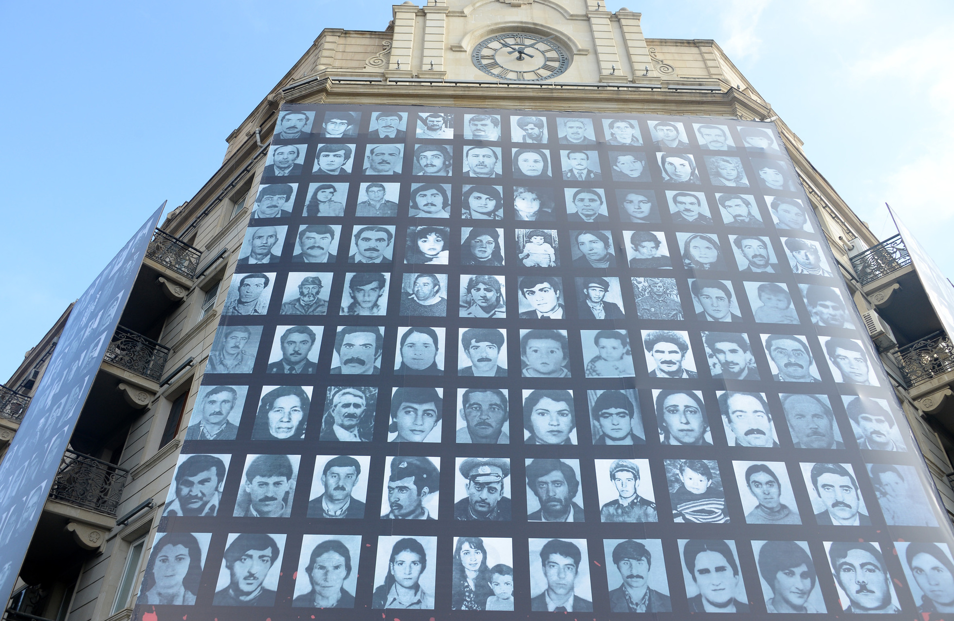 Ilham Aliyev attended ceremony to commemorate Khojaly genocide victims